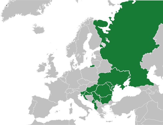 Map with countries that have branch of OTP bank marked in green.